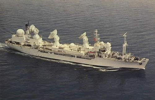 Photo of USNS General Hoyt S. Vandeberg (T-AGM-10) underway. Ship was previously USS General Harry Taylor (AP-145), USAT General Harry Taylor, USNS General Harry Taylor (T-AP-145), USAF General Hoyt S. Vandenberg